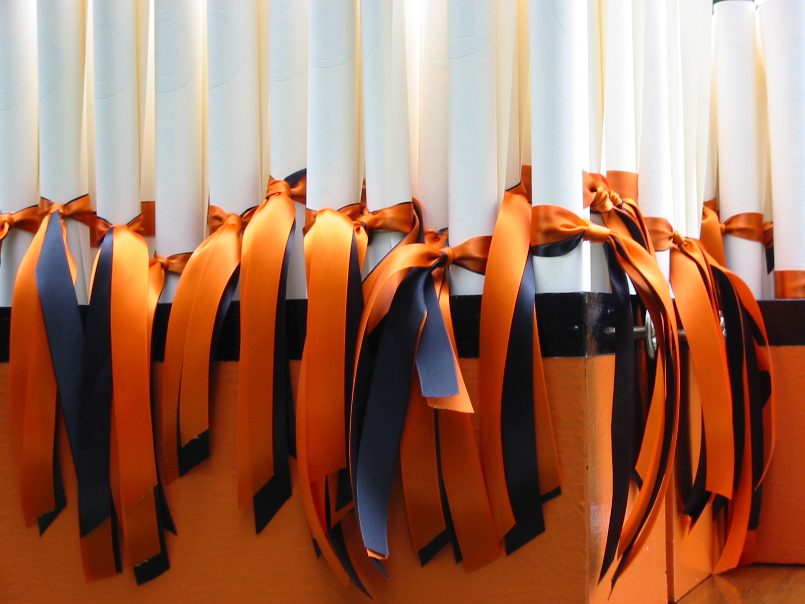 SJCA Diplomas at the commencement ceremony for St. Johns College; May 2006 in Annapolis, MD.